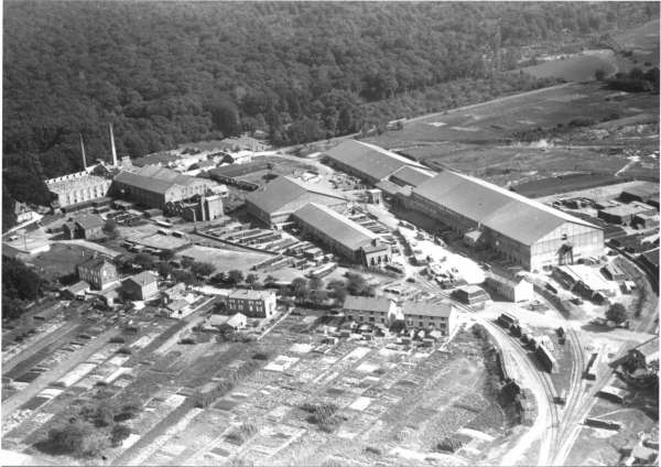 Aerial view of the tile factory of Pargny-sur-Saulx